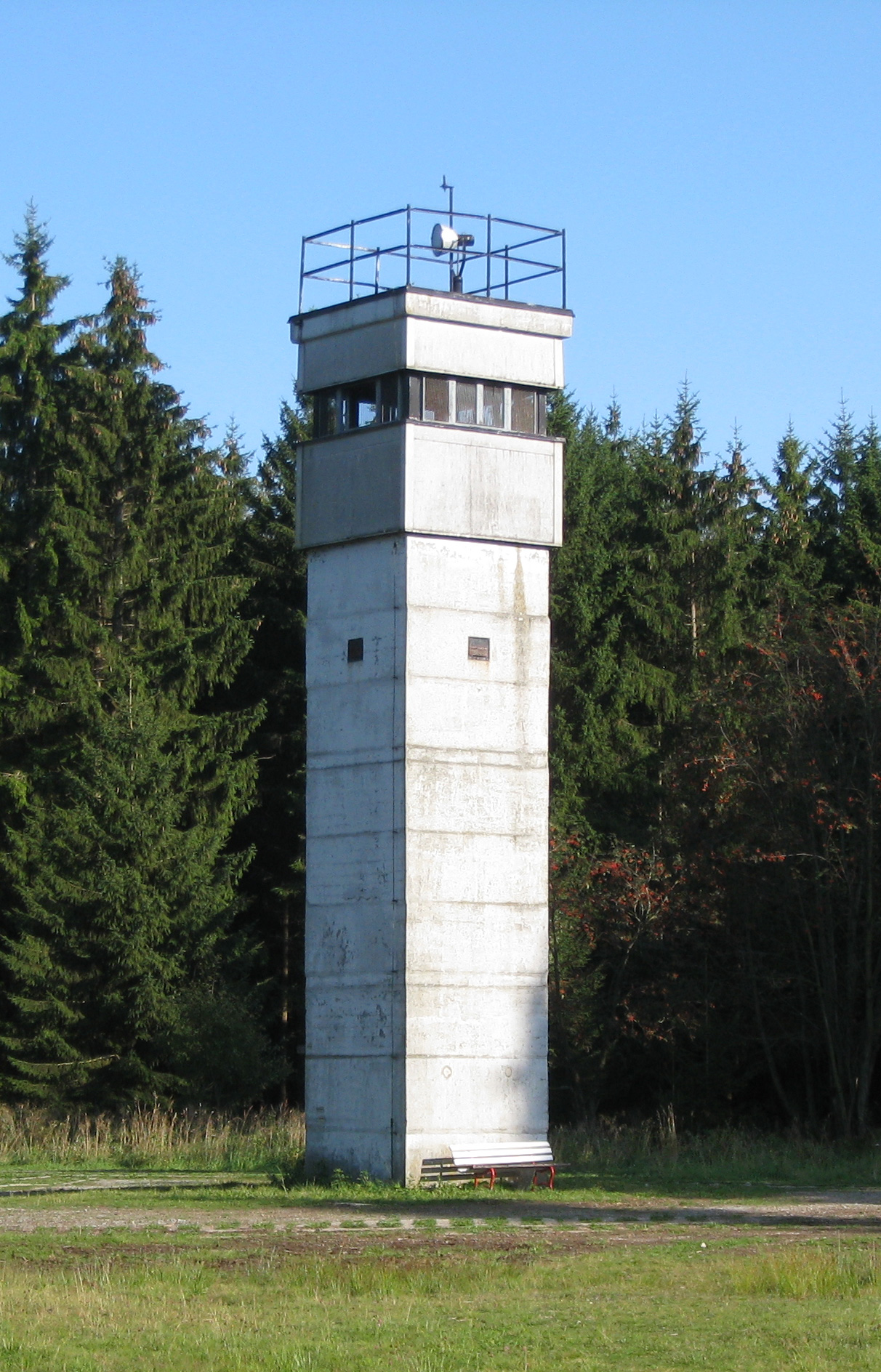 East German BT-9 watchtower on the former inner German border near Sorge.